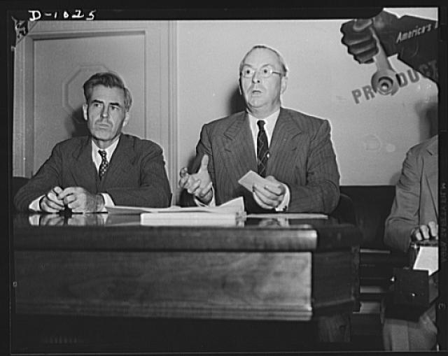 Henry A. Wallace, Chairman, Supply Priorities and Allocations Board and Vice-President of the United States, and Donald M. Nelson, Executive Director, Supply Priorities and Allocations Board and Director of the Priorities Division, Office of Production Management (OPM). Photograph taken at a joint press conference held directly after the first meeting of the Supply Priorities and Allocations Board on September 2, 1941.